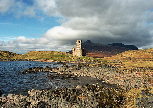 Ardvreck Castle on the Shore of Loch Assynt